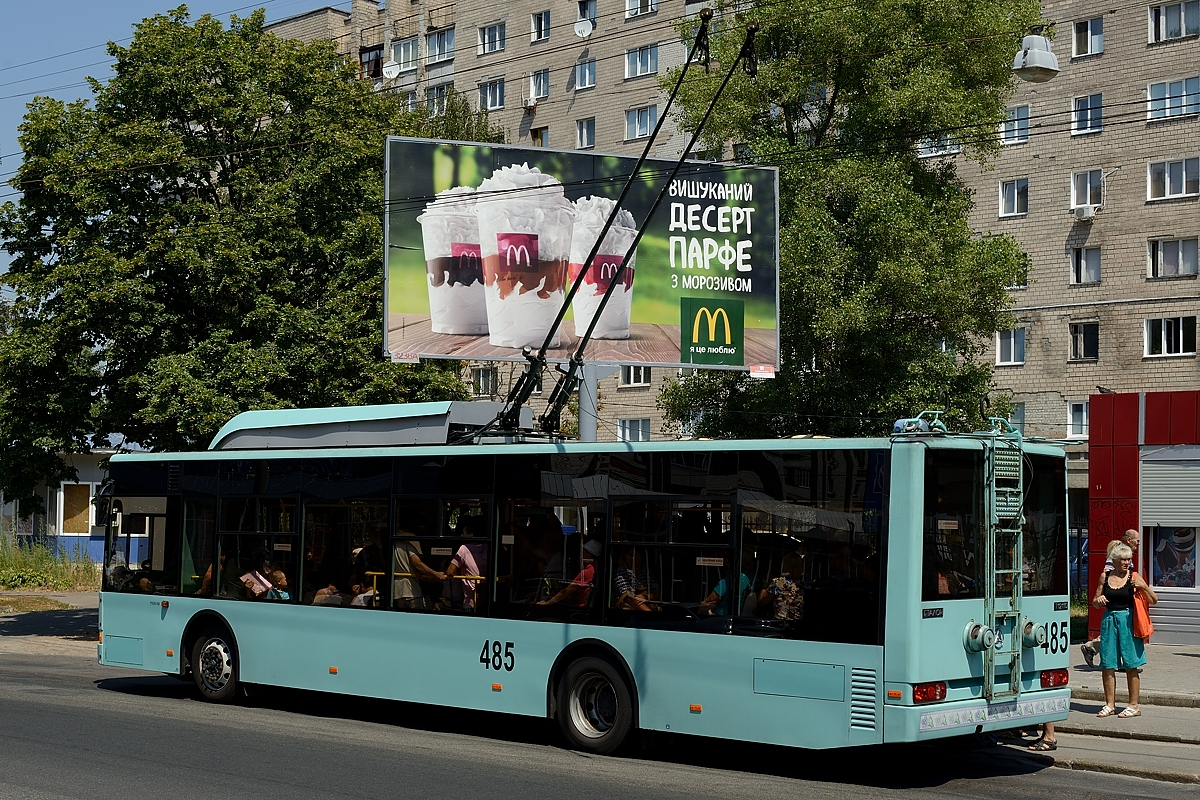 Etalon T12110 485 in Chernihiv